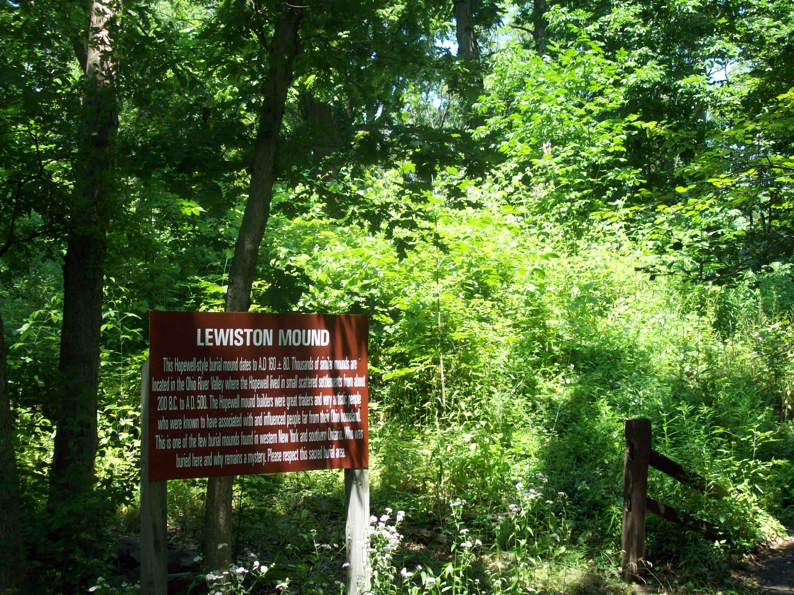 Lewiston Mound, June 2009